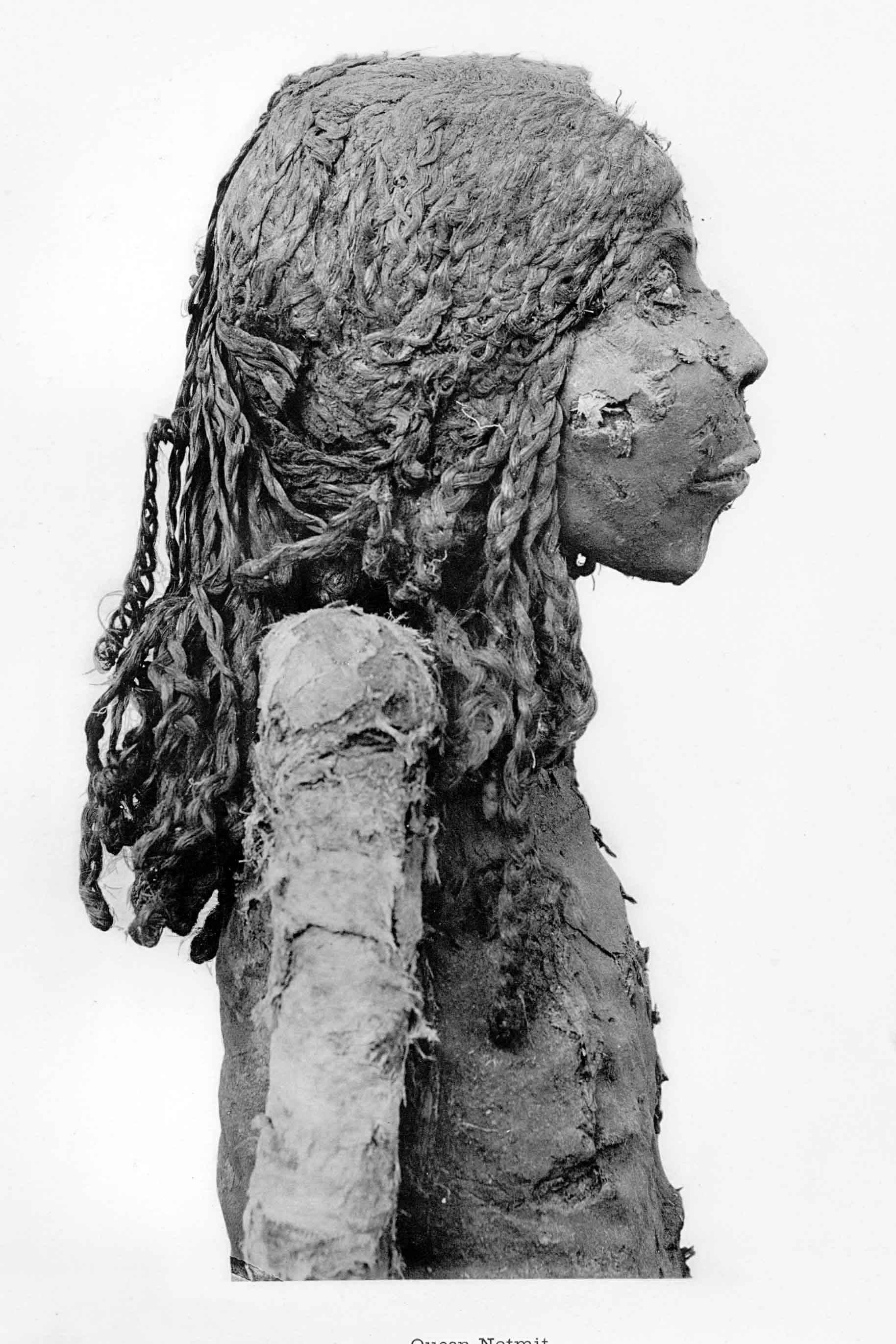 Mummy of Nodjmet, "queen" of the High Priest of Amun Herihor during the 20th-21st dynasty, found in DB320.